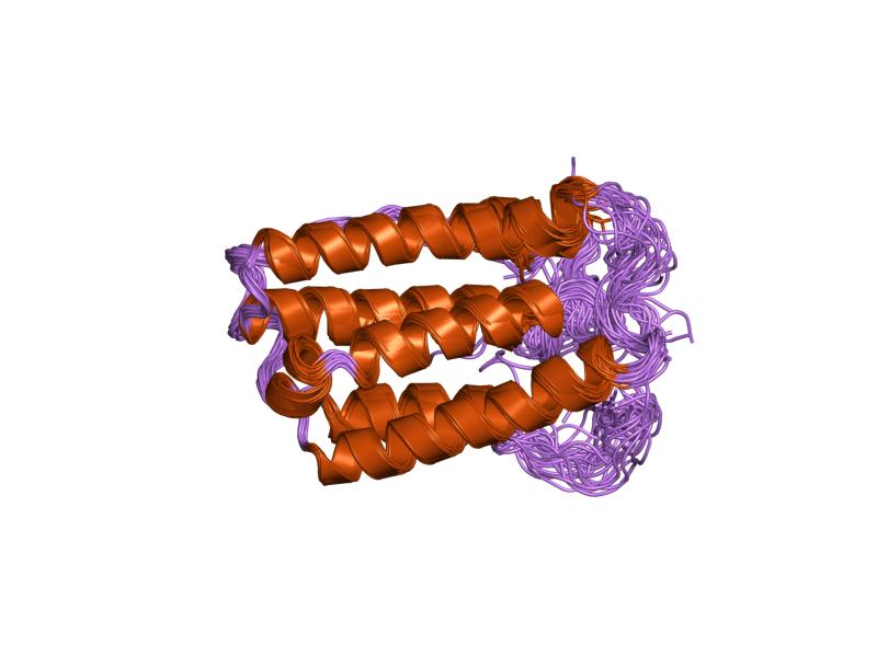 Cartoon representation of the molecular structure of protein registered with 1itf code.